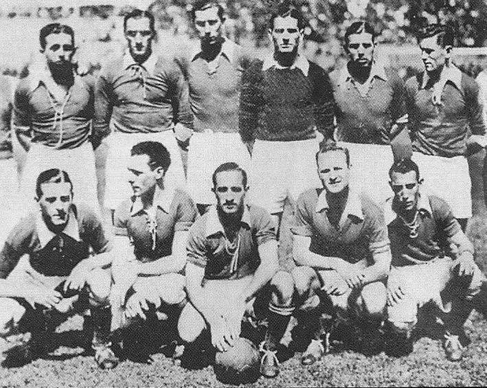 Club Atlético Acassuso in 1937. That team won the Primera C (then called "Primera Amateur") championship.